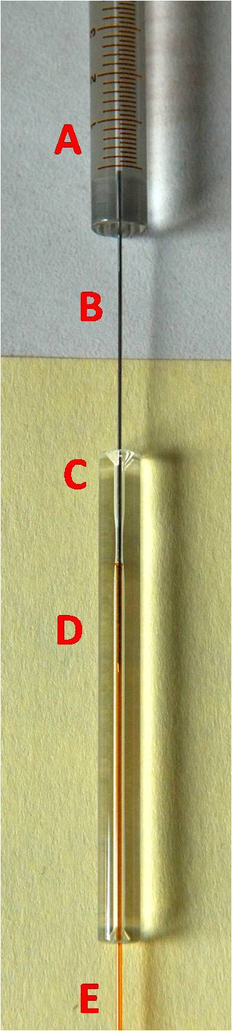 On-Column-Injection in Gas-Chromatography: A:Syringe, B:Needle, C:Injector Liner with Tight-Junction for Needle alignment, D:Needle penetrates column, E:wide-bore-column, Yellow area: Injector